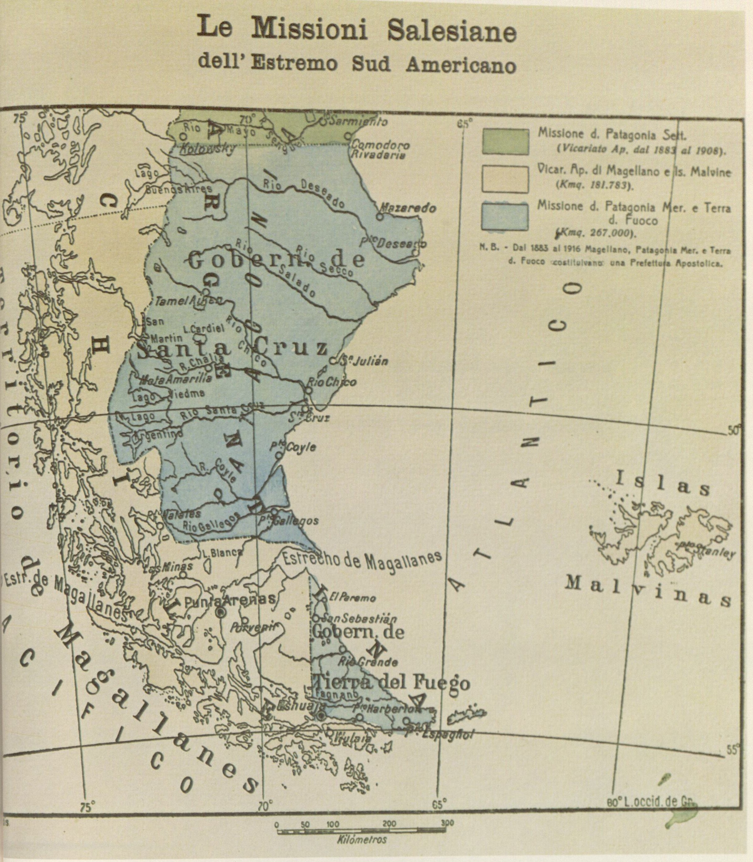 The original of the map reproduced here is located in the Archives of the Salesian Congregation in Rome. The different colours show up the ecclesiastic juridictions of the Salesian missions in the extreme south of America. Here the Mission to Southern Patagonia and Tierra del Fuego attached to the Archdiocese of Buenos Aires is shown in blue. The territories assigned to the Apostolic Vicariate of Magellan and the Falkland Islands is shown in pink, including the islands and islets located to the south of the Beagle Channel as far as Cape Horn.